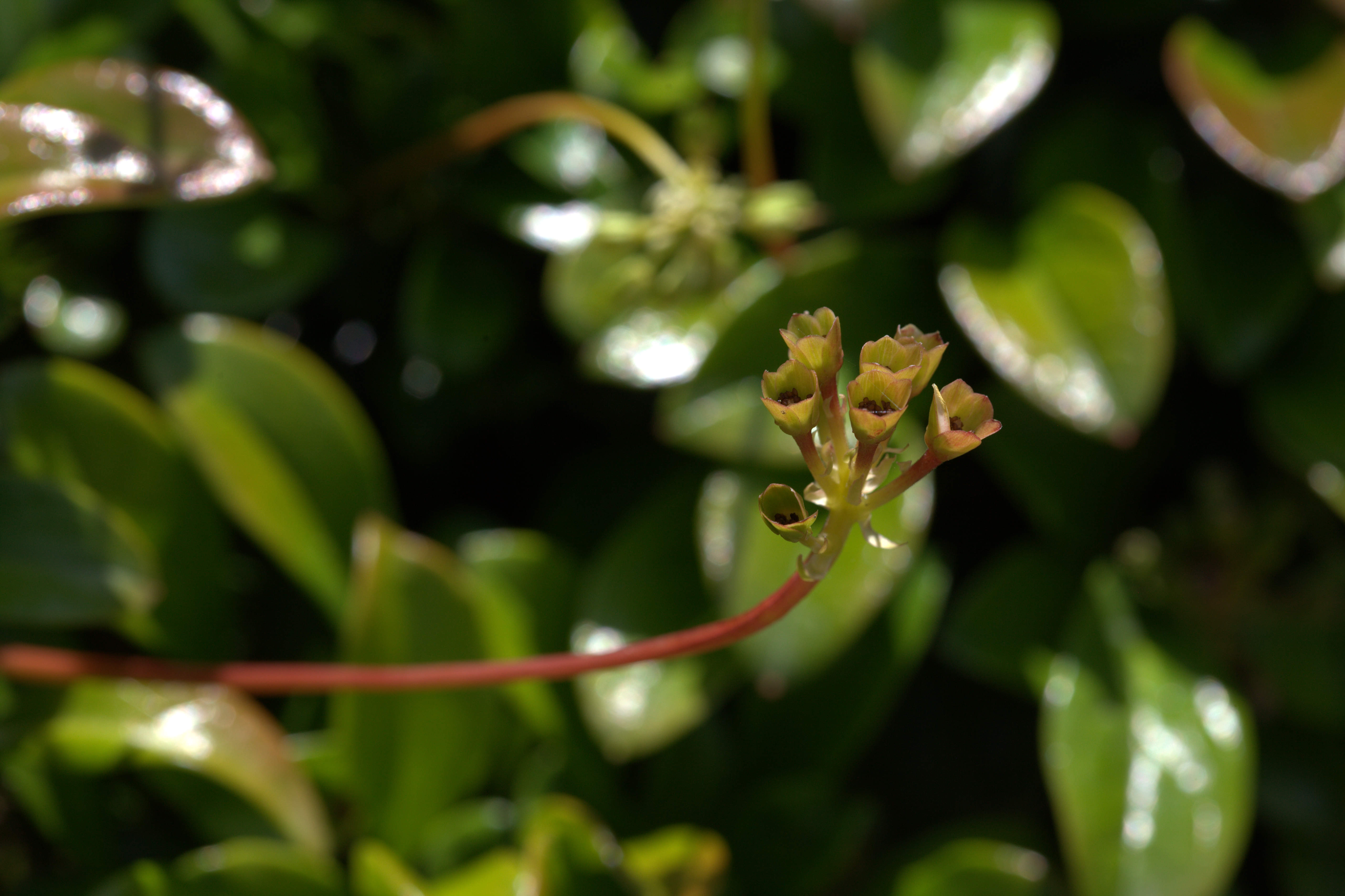 Photo taken at Gothenburg botanical garden. Specimen id: 2007-1646 s G Seed collected in 2007 from a garden (GBT/Larsen).